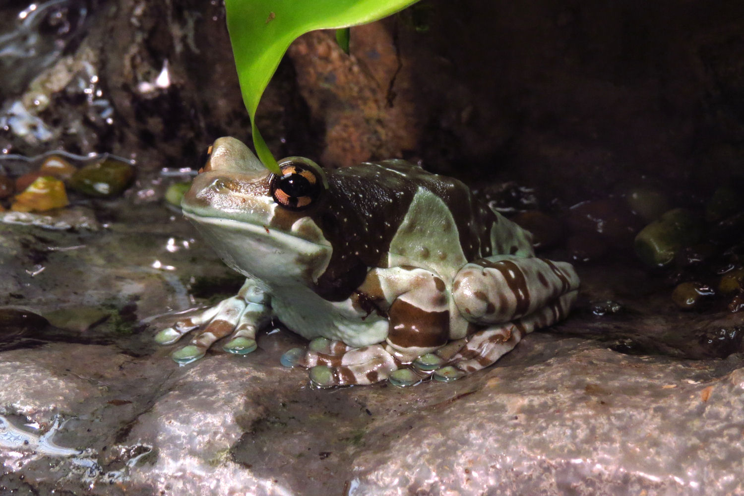 Amazon Milk Frog (Trachycephalus resinifictrix), Canadian Museum of Nature